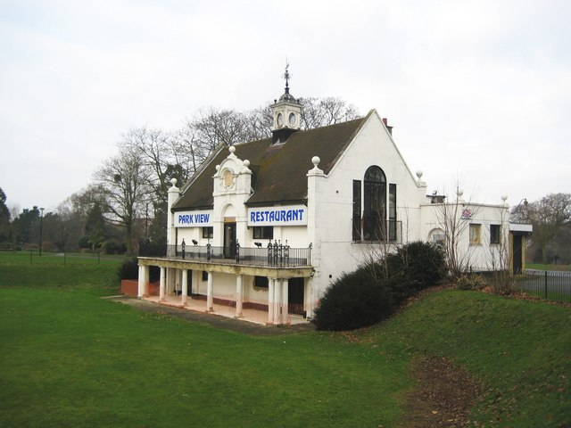 Slough: The Barn in Salt Hill Park - Slough: The Barn in Salt Hill Park A local benefactor, James Elliman, provided the space and paid for the landscaping when the park was opened in 1907. The Barn dates from that time and was built to provide facilities for users of the park, although it does give the impression of being a cricket pavilion above anything else. It is now in use as an Indian restaurant called the Park View.